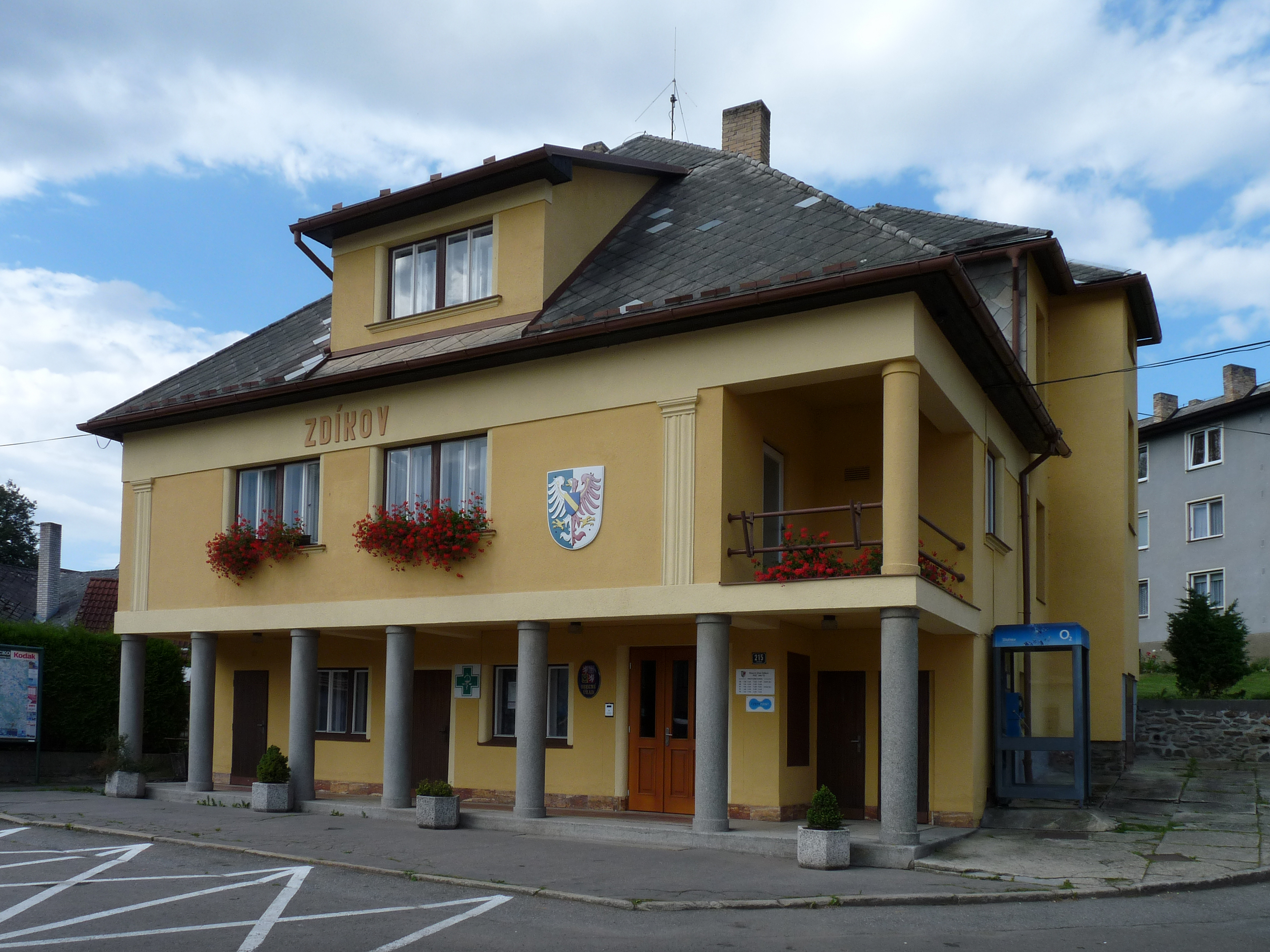 Municipal office building in the village and municipality of Zdíkov in Prachatice District, Czech Republic.